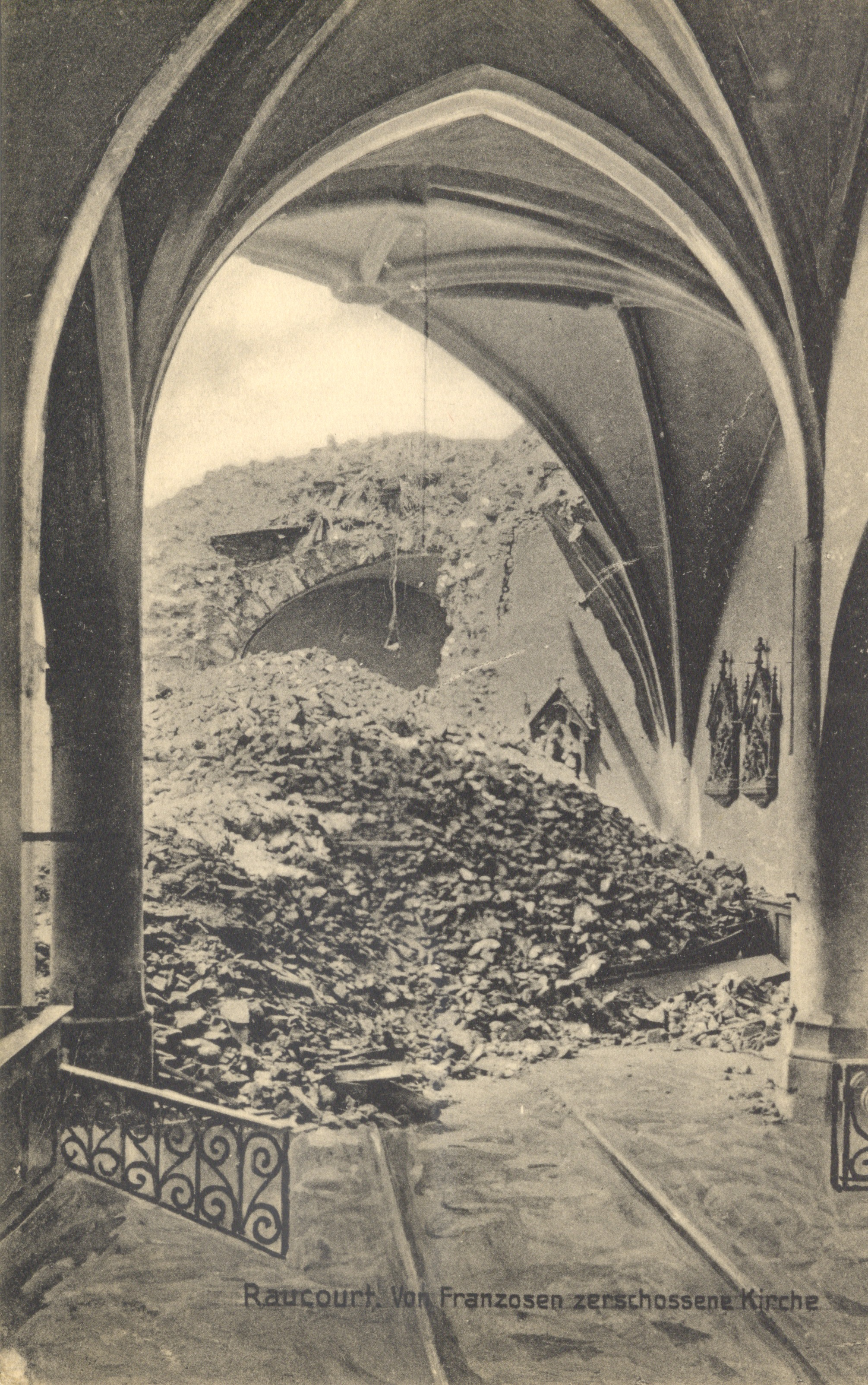 Persistent URL: Subject: World War I; Lost architecture; Churches; France--Raucourt; miami digital collections; bowden postcard collection